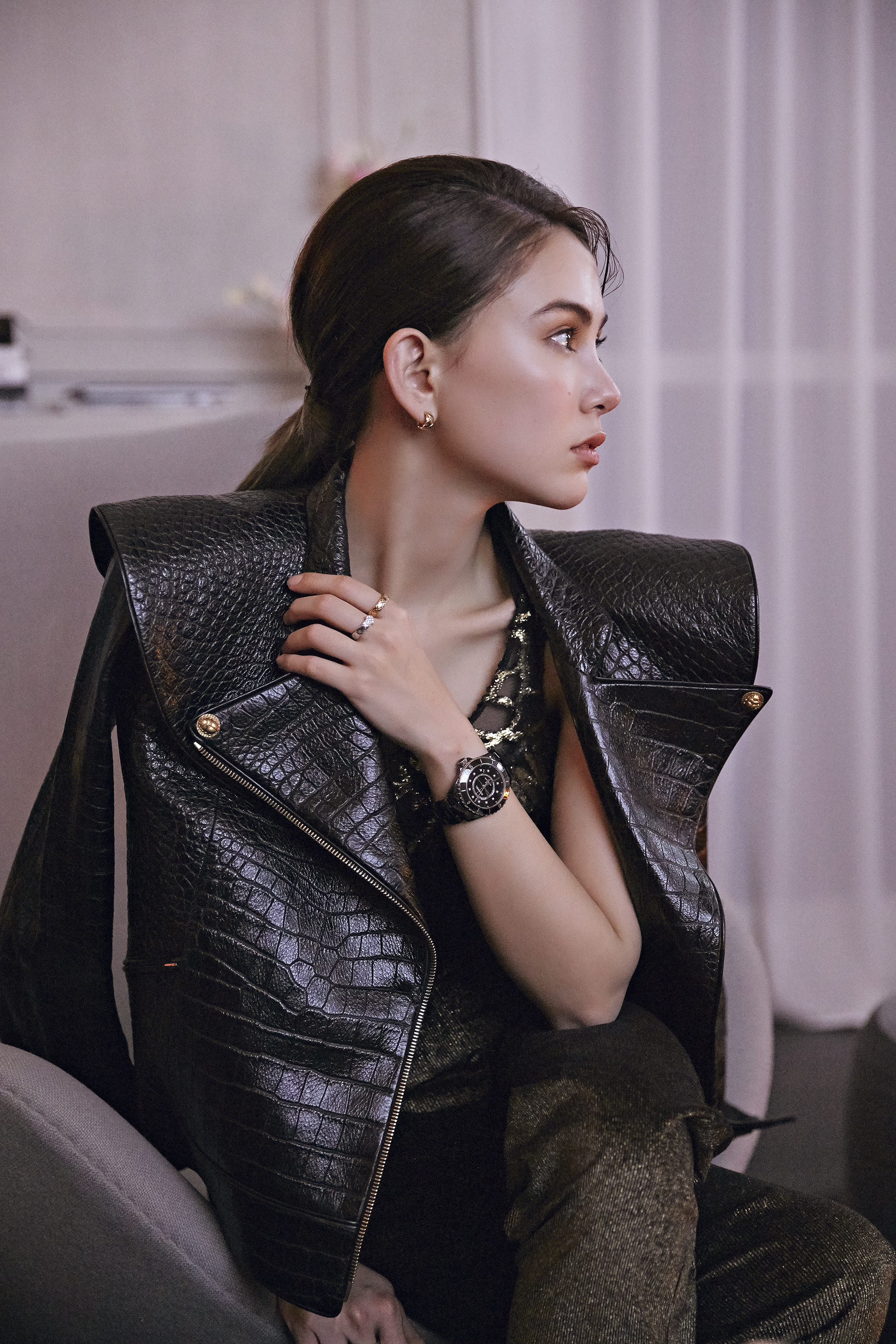 Hannah Quinlivan in 2019